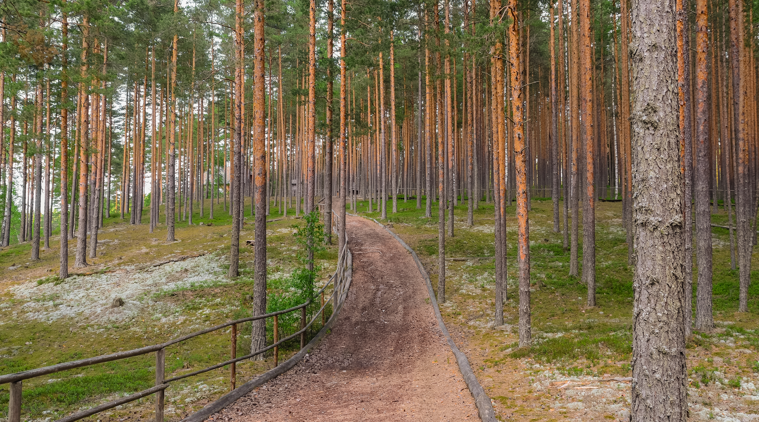 Meenikunno Landscape Reserve (the trees are Pinus sylvestris).